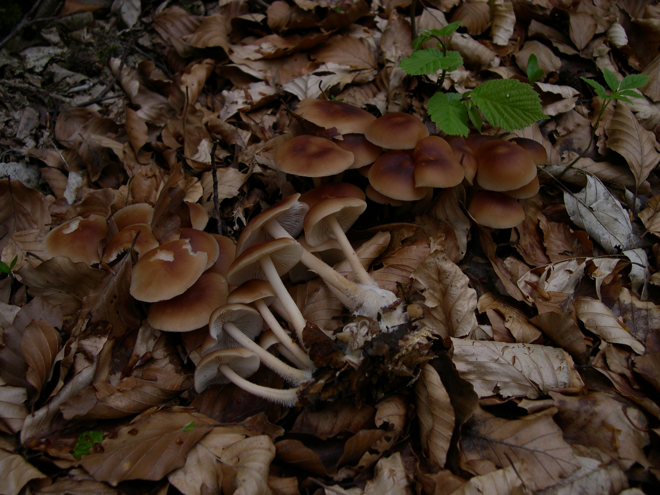 Collybia hariolorum - Moggio (LC)